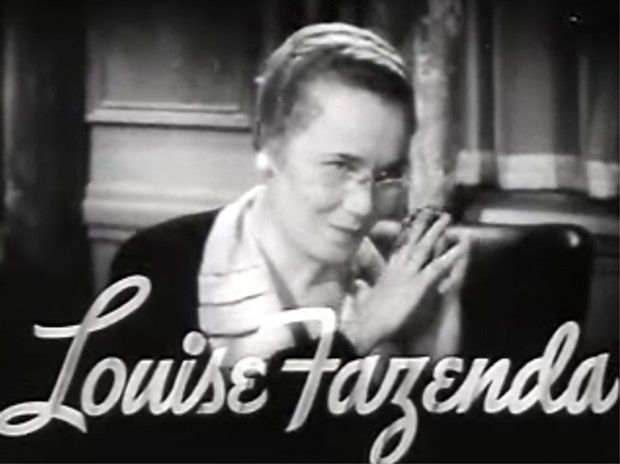 Cropped screenshot of Louise Fazenda from the trailer for the film Broadway Gondolier